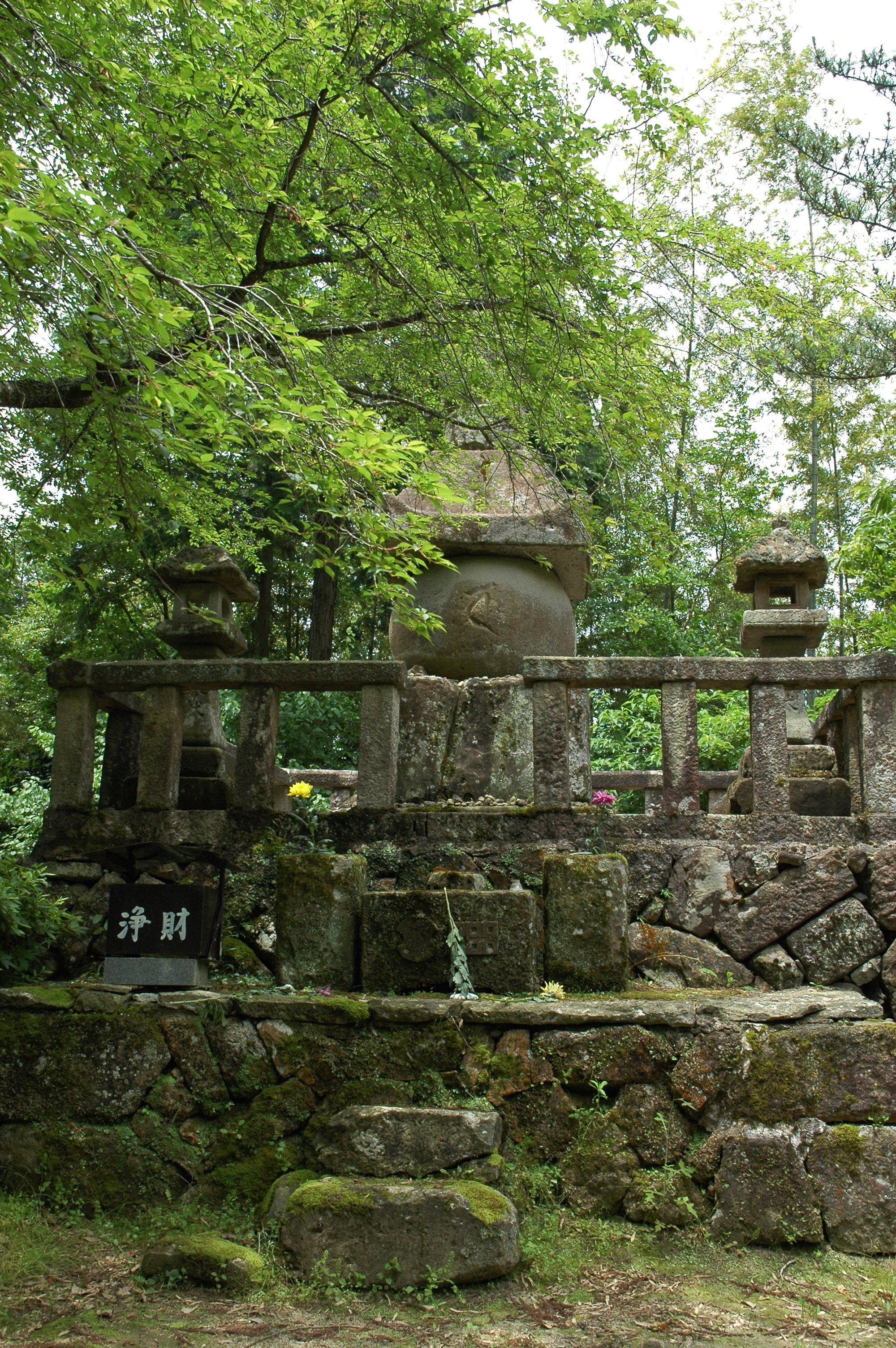 tomb of Horio Yoshiharu in Hirosecho, Yasugi, Shimane, Japan